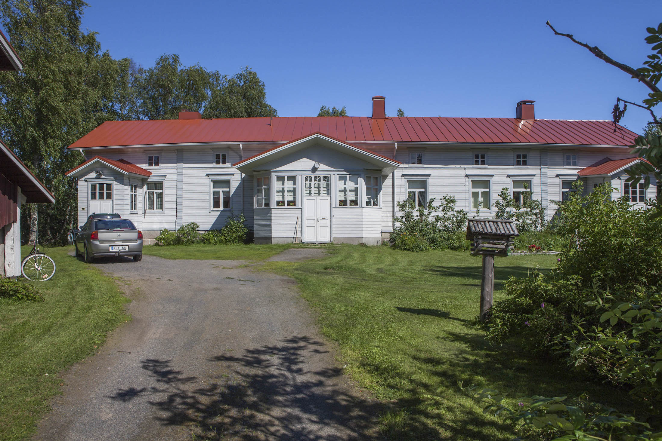 Rectory of Ii, Northern Ostrobothnia, Finland